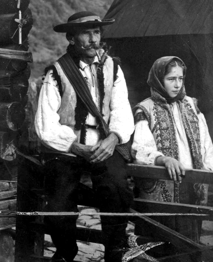 Hutsuls (Ukrainian highlanders) from Verkhovyna district, southern part of Ivano-Frankivsk oblast (province), western Ukraine. old prewar photo.